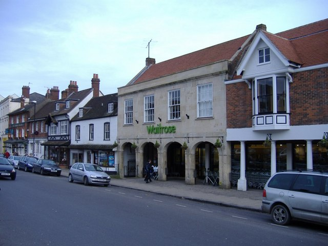 Waitrose, Marlborough High Street